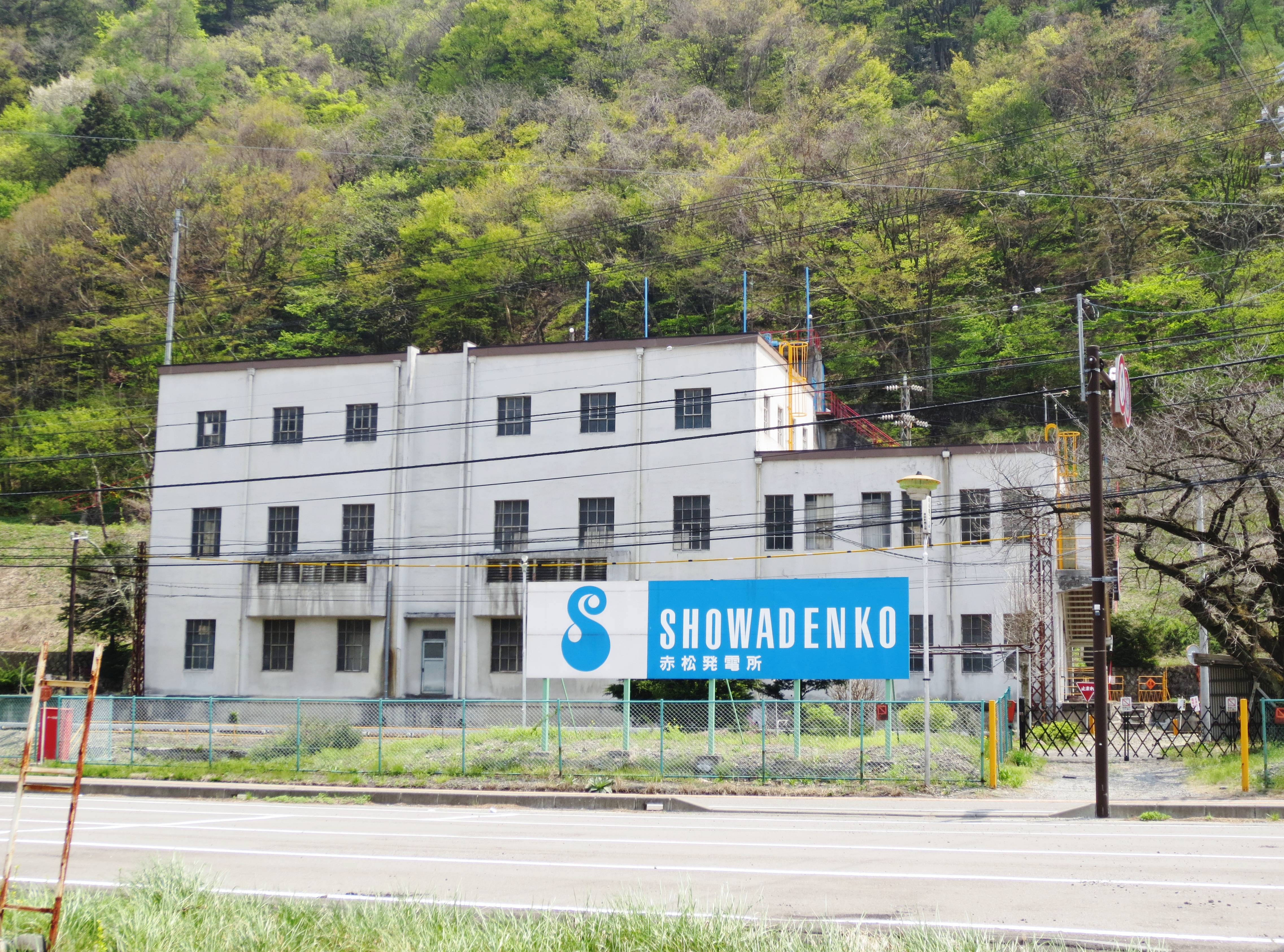 Akamatsu Power Station (Nagano).